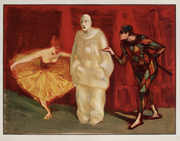 Pantomime by Henri-Gabriel Ibels, lithographic print from L'Estampe moderne, vol. I, Paris, F. Champenois.